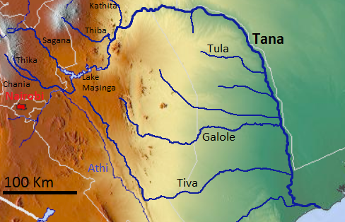 The Tana Basin OSM